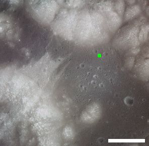 Green dot shows location of Shakespeare, Taurus-Littrow Valley, on the moon. Scale bar at lower right is 5 km.